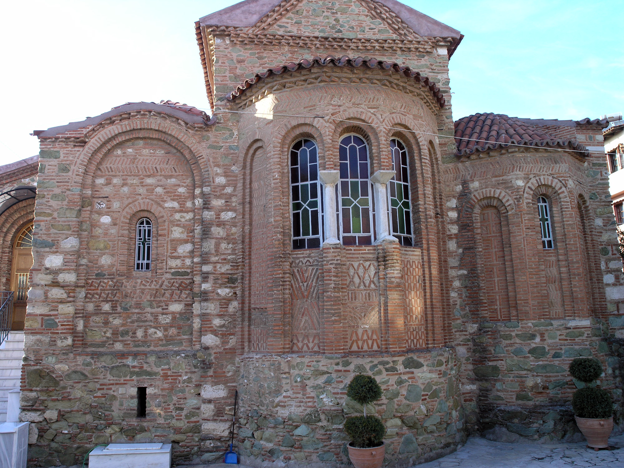 Byzantine church of the Taxiarchs in Thessaloniki : East side. Ca 1300-1350. Photograph taken by Marsyas 10:28, 27 February 2006 (UTC)